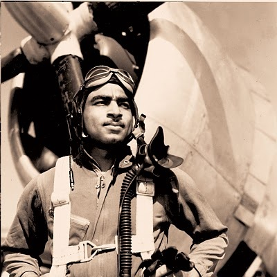 Spann Watson at Lockbourne Air Force Base near Columbus Ohio (now known as Rickenbacker Airport) during the late 1940s